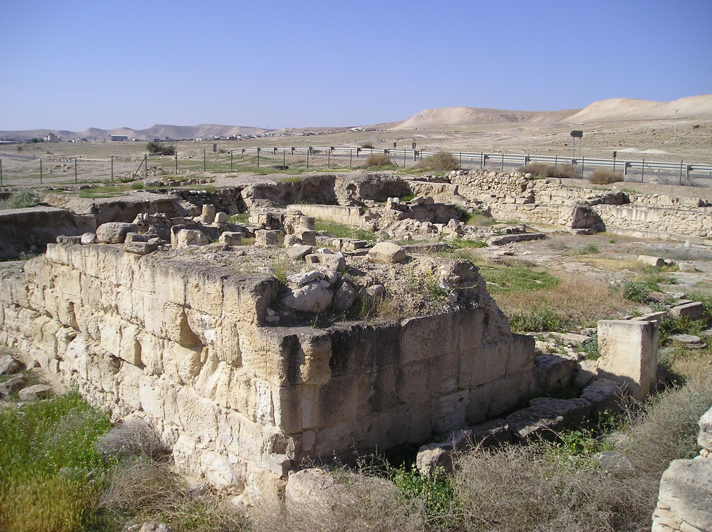 Ruins of Byzantinian church in Archelais, Israel